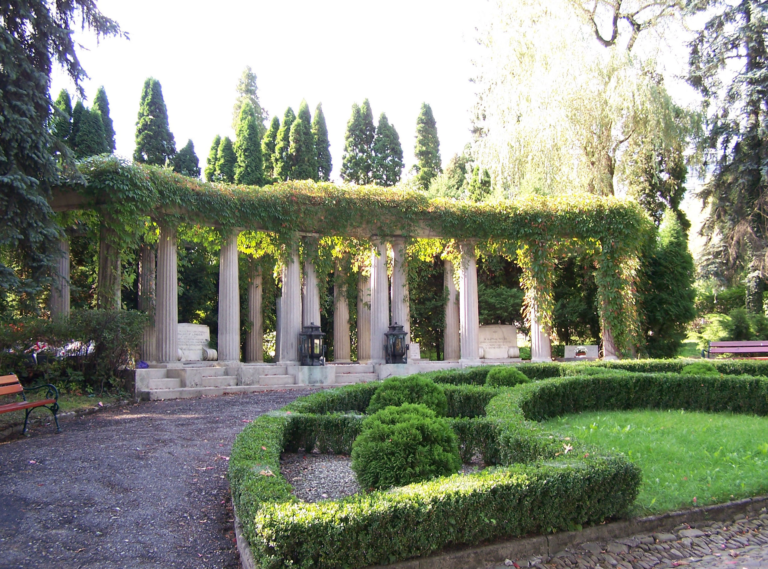 Avenue of Notables (Aleja Zasłużonych) at the Communal Cemetery in Cieszyn, Poland